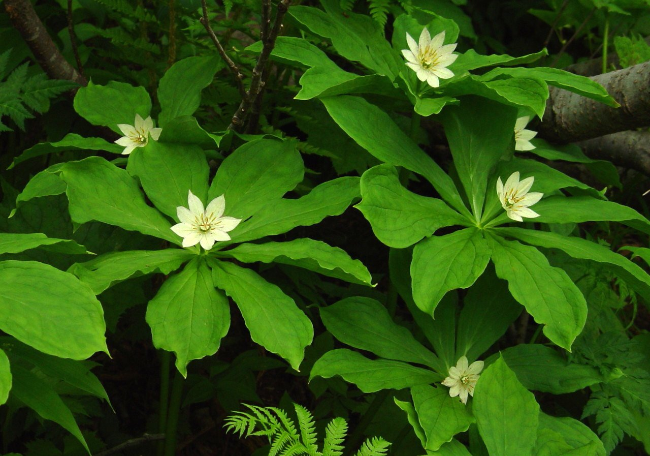 Paris japonica (Kinugasa japonica) Liliaceae, taken in Mount Haku